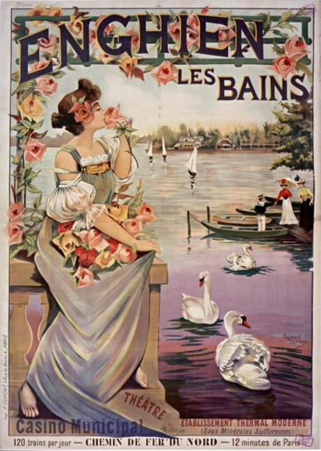 Poster of the Compagnie des chemins de fer du Nord (France); Enghien-les-Bains.